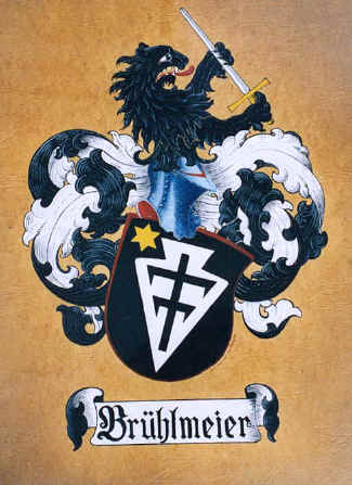 Coat of Arms of the Brühlmeier Family